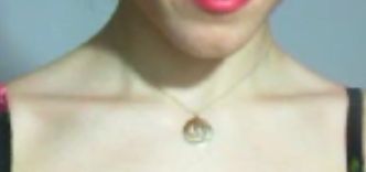 A real clavicle